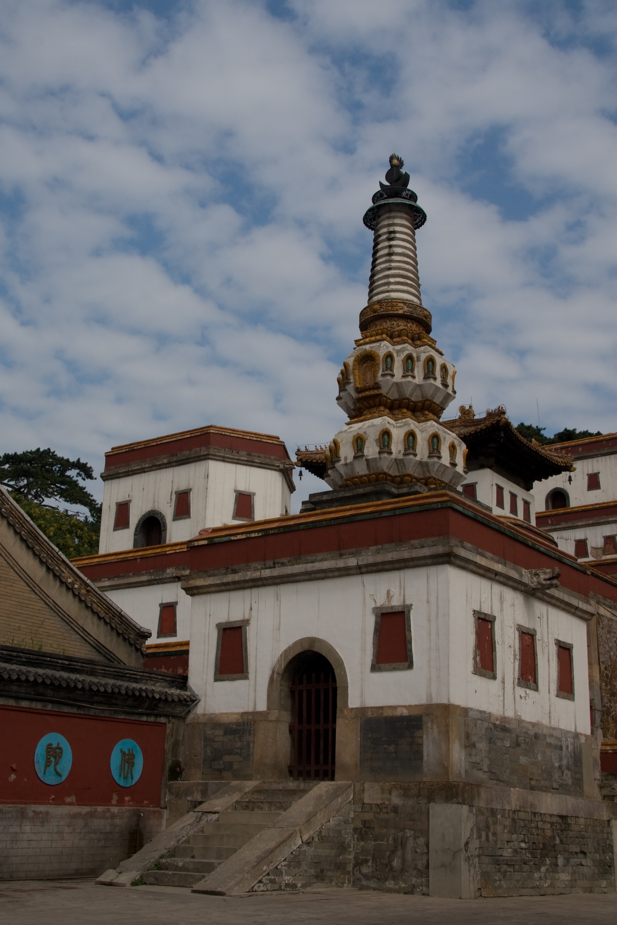 Chengde, China